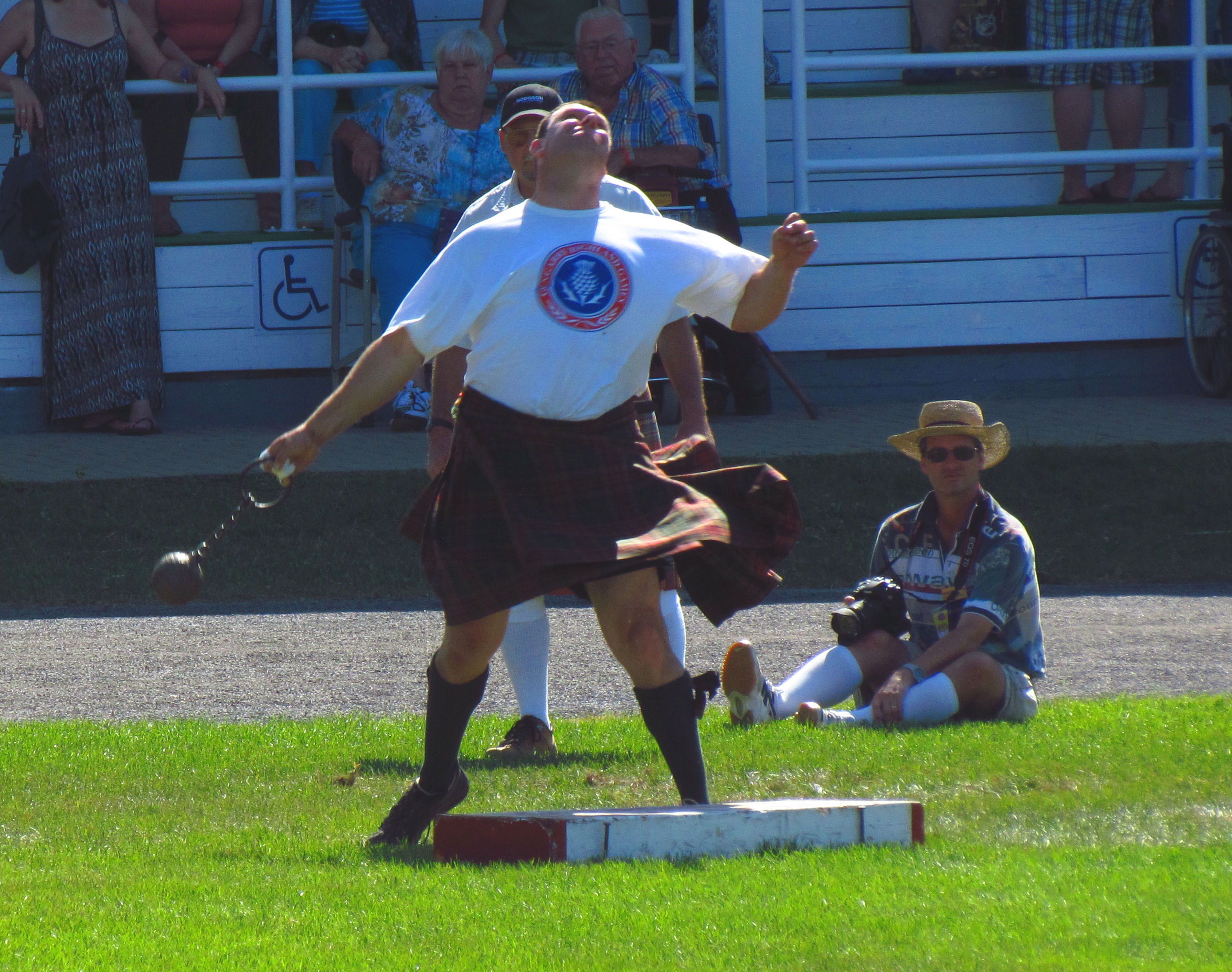 Heavyweight competitor in the 28 lb weight for distance event at the Glengarry Highland Games, Maxville, Ontario, Canada, 2011